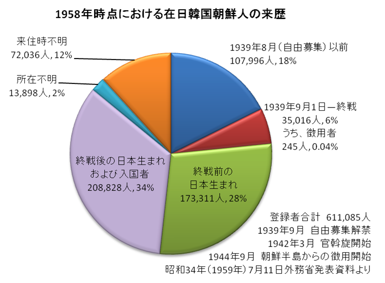 Dates of immigration or birth of Korean residents in Japan in 1958.